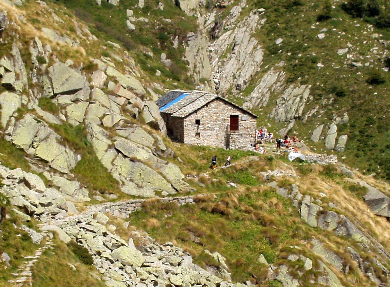 Rifugio della Vecchia (Pennine Alps, BI, Italy)